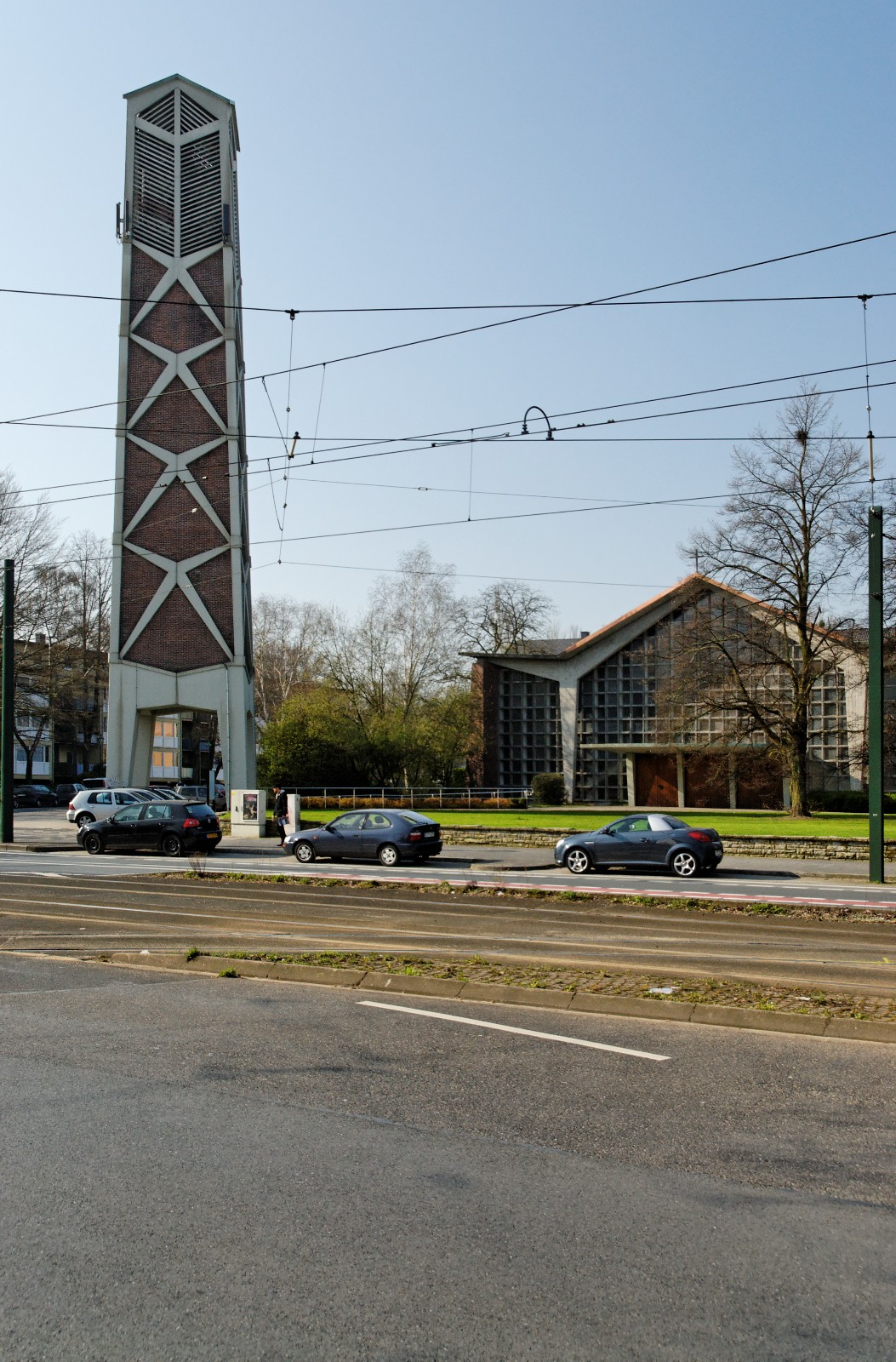 Adolf Clarenbach Church in Düsseldorf-Holthausen, Germany